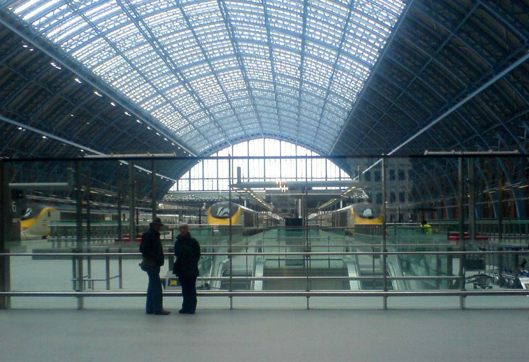 St Pancras Internation station's Eurostar platforms